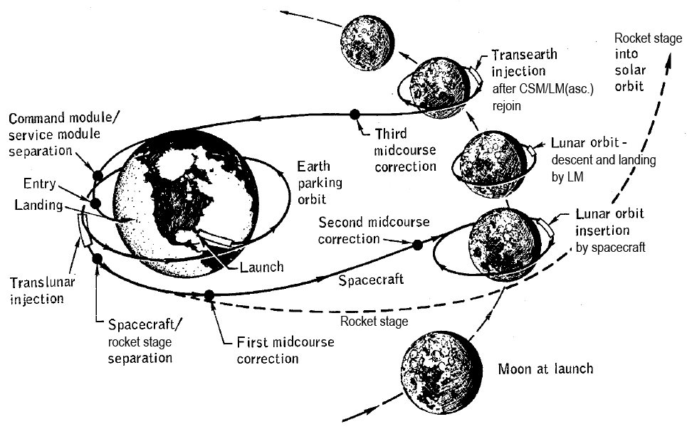 Apollo Moon landing mission profil. Derived from Apollo 8 mission profile.